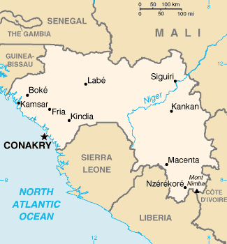 Map of Guinea, U.S. Central Intelligence Agency World Factbook map, 2002.